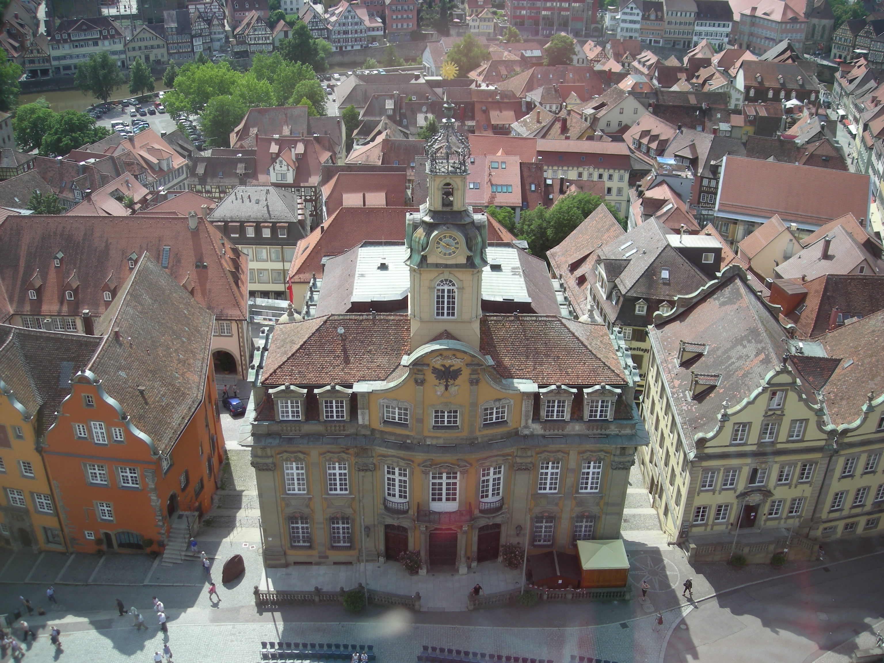 A view of the Rathaus from the St. Michael belltower in Schwäbisch Hall, Baden-Württemberg (Germany).